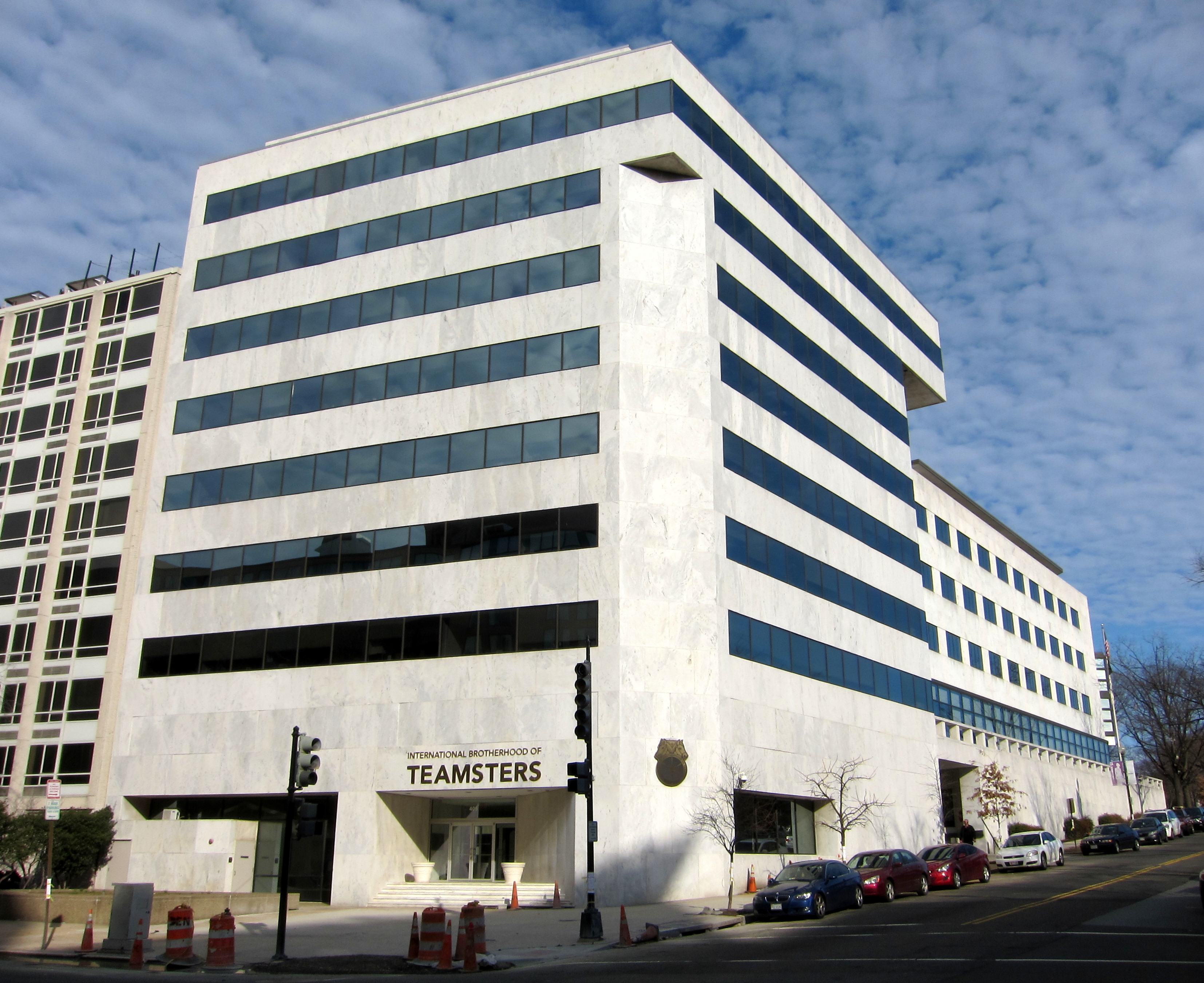 The International Brotherhood of Teamsters headquarters located at 25 Louisiana Avenue NW in Washington, D.C.